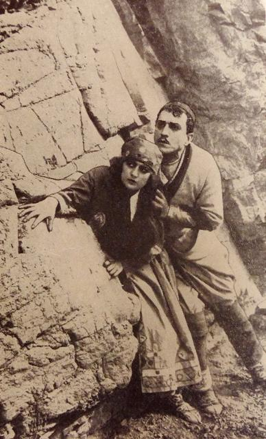 Nato Vachnadze and Vano Sarajishvili in photo film "Patricide" (მამის მკვლელი, "Mamis mkvleli").